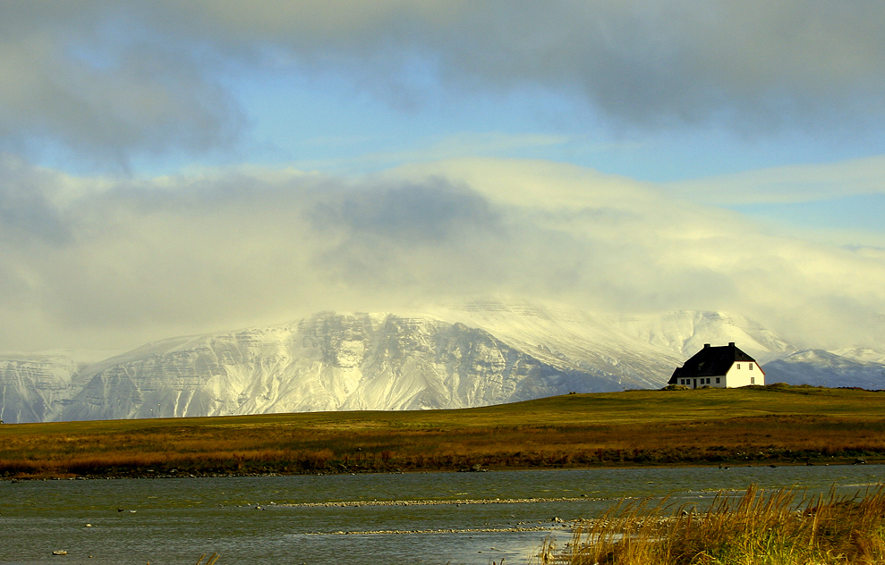 The mountain Esja seen from Lambastaðir (Reykjavik), from southwest